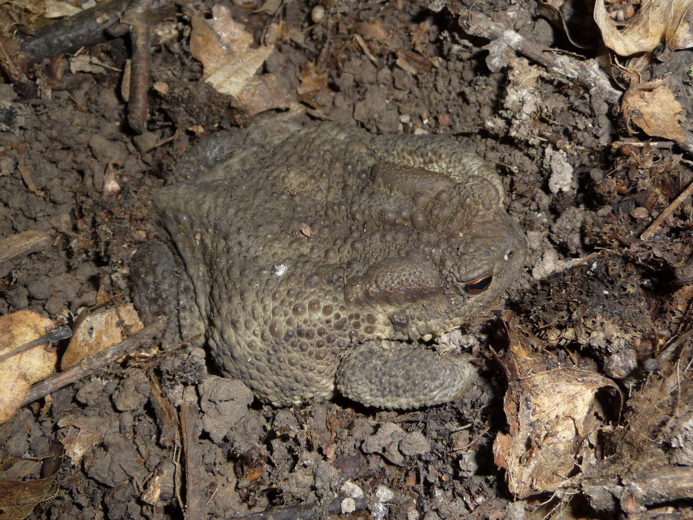 The common toad or european toad (Bufo bufo). Ukraine. Example of an excellent camouflage to a background